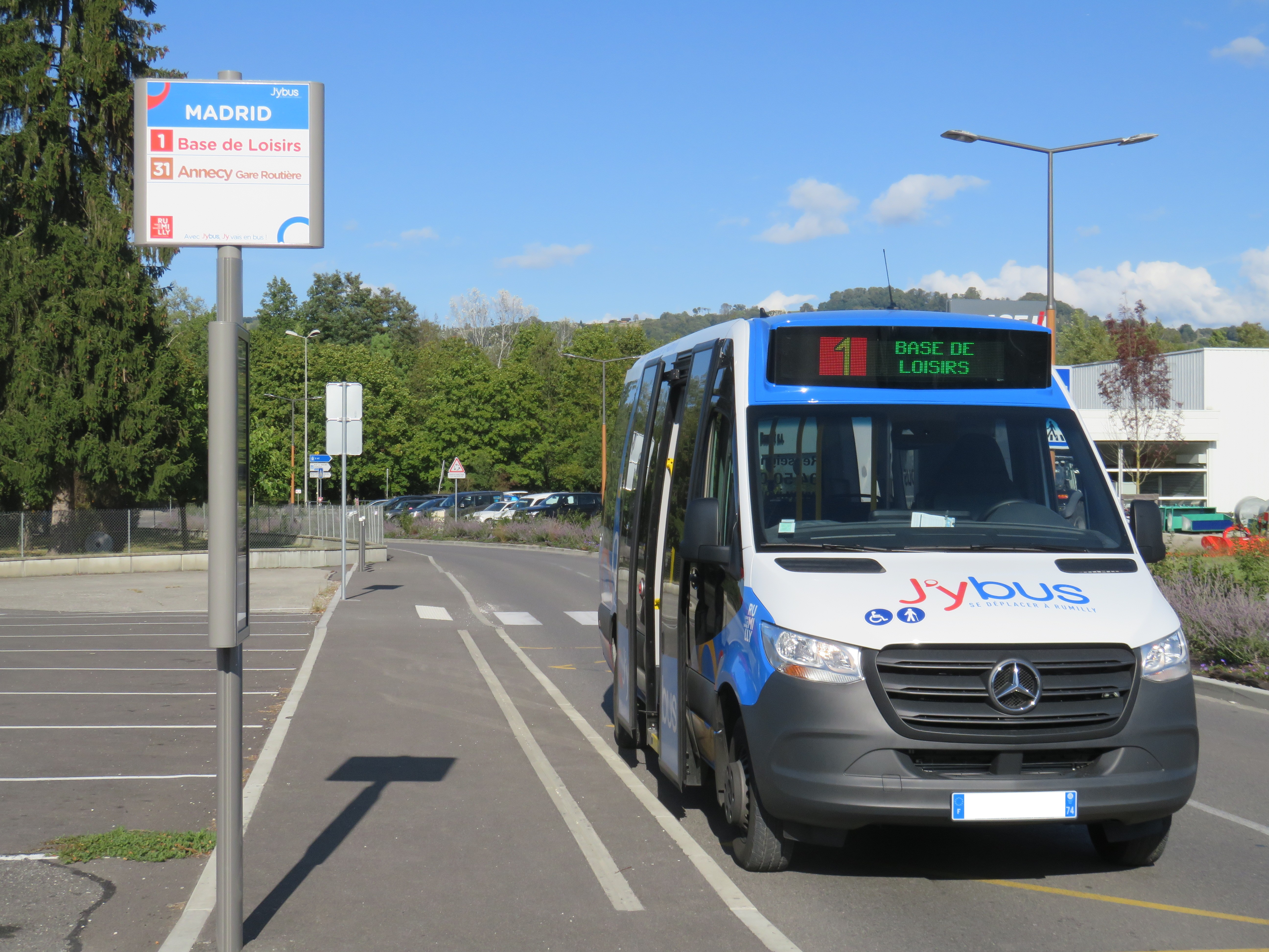 A Dietrich City 29 (n°2 of the French agglomeration community Rumilly Terre de Savoie), carrying out the line 1 of the bus network J’yBus — Hôpital, Rumilly↔Base de loisirs, Rumilly — and stopped at the call Madrid (Rumilly, France) on September 28, 2019.